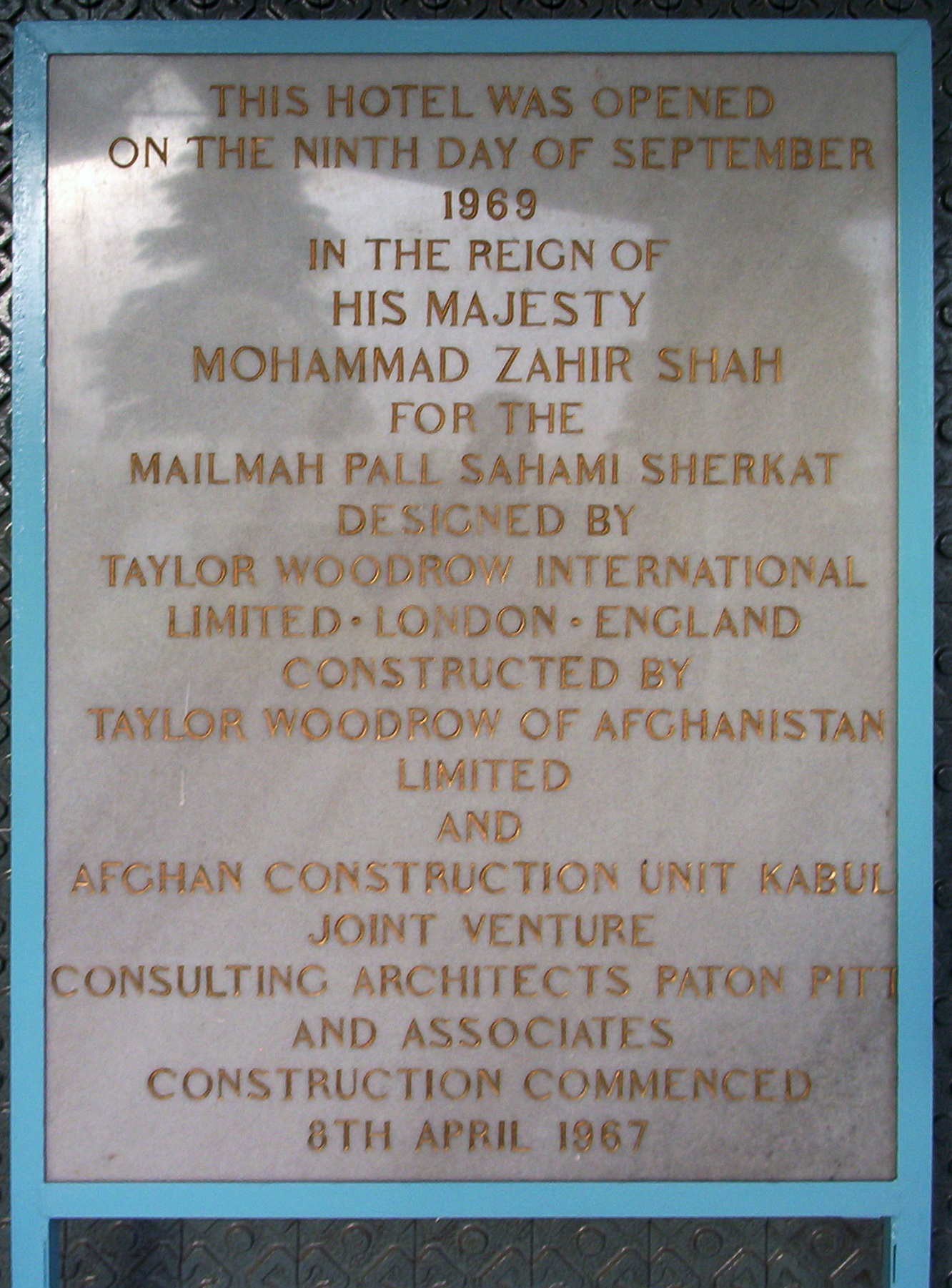 Sign at the InterContinental Hotel Kabul